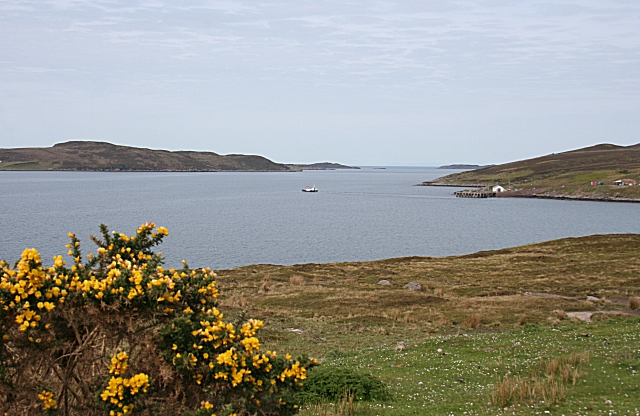 Badentarbat Bay Looking west from the road junction across the flat land by the bay. On the left is Tanera Mòr, largest of the Summer Isles, and the ferry can be seen crossing from the pier at the far side of the bay.